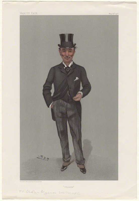 Statesmen No.735: Caricature of Mr Charles Algernon Whitmore MP. Caption reads: "Chelsea"